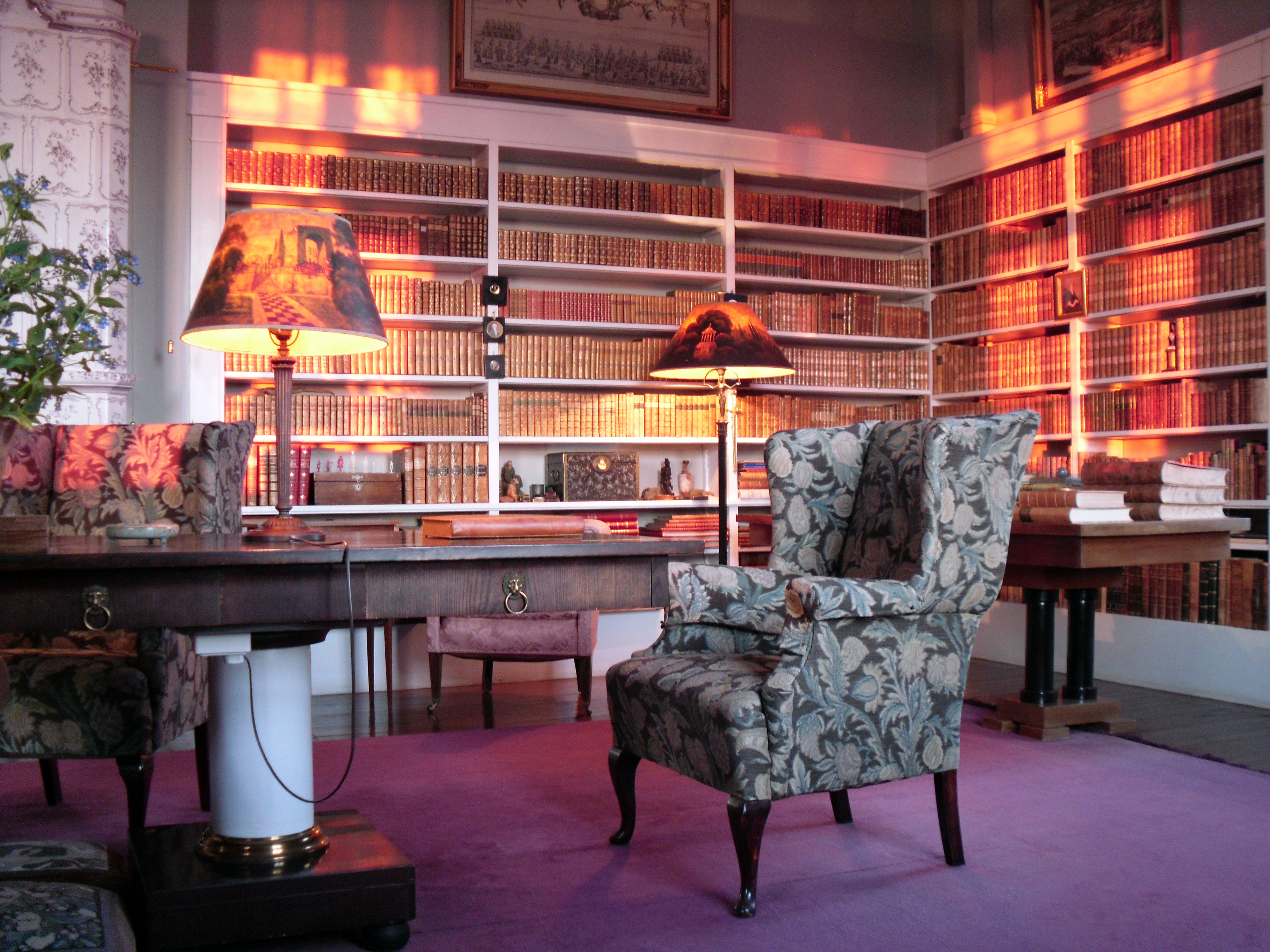 The library at Övralid, Motala, Sweden. The home of author Verner von Heidenstam